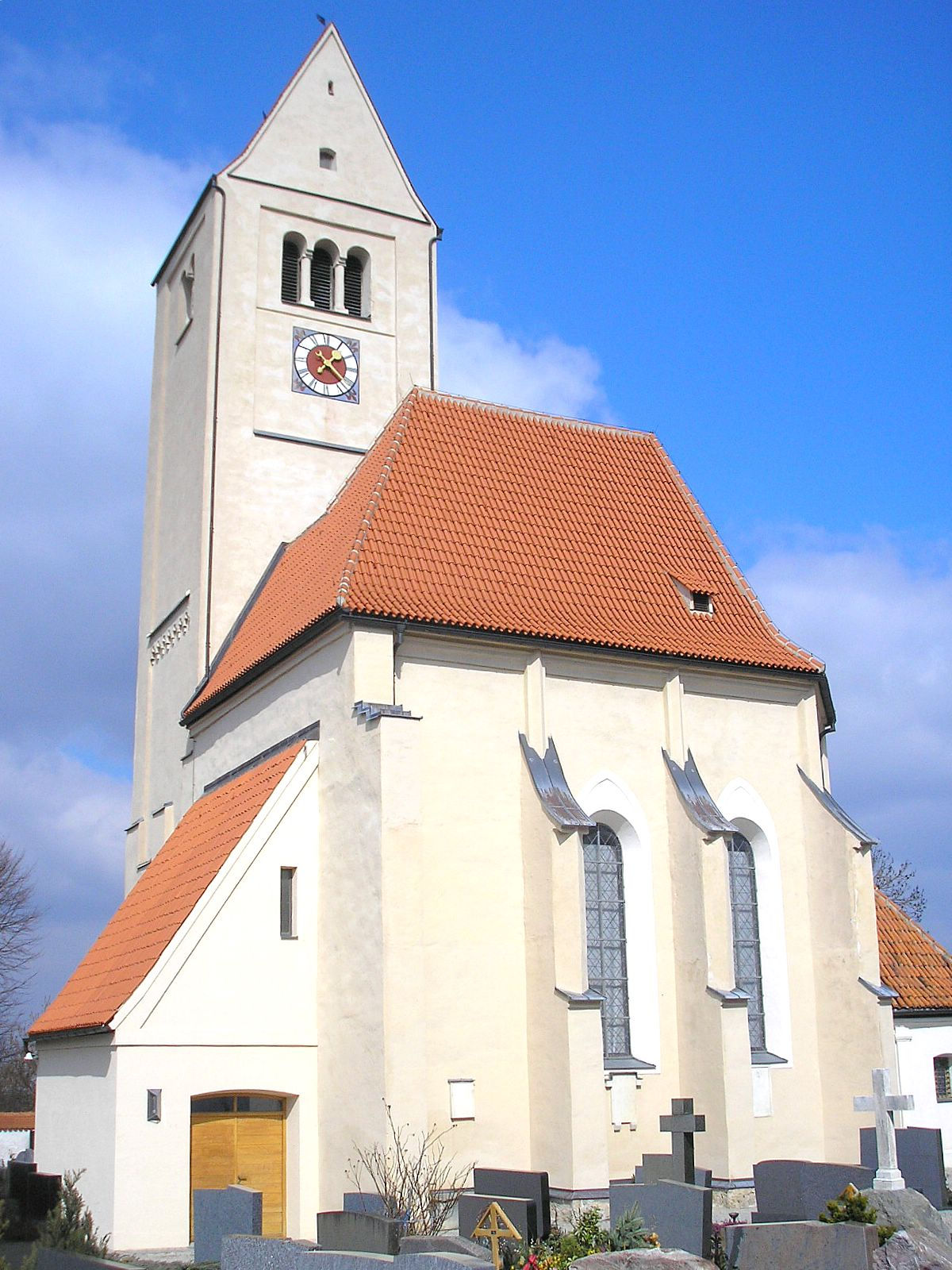 Irsee (Landkreis Ostallgäu, Bavaria, Germany). St. Stephan at the cemetery